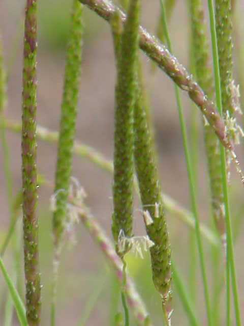 Species: Alopecurus myosuroides Family: Poaceae Image No. 1